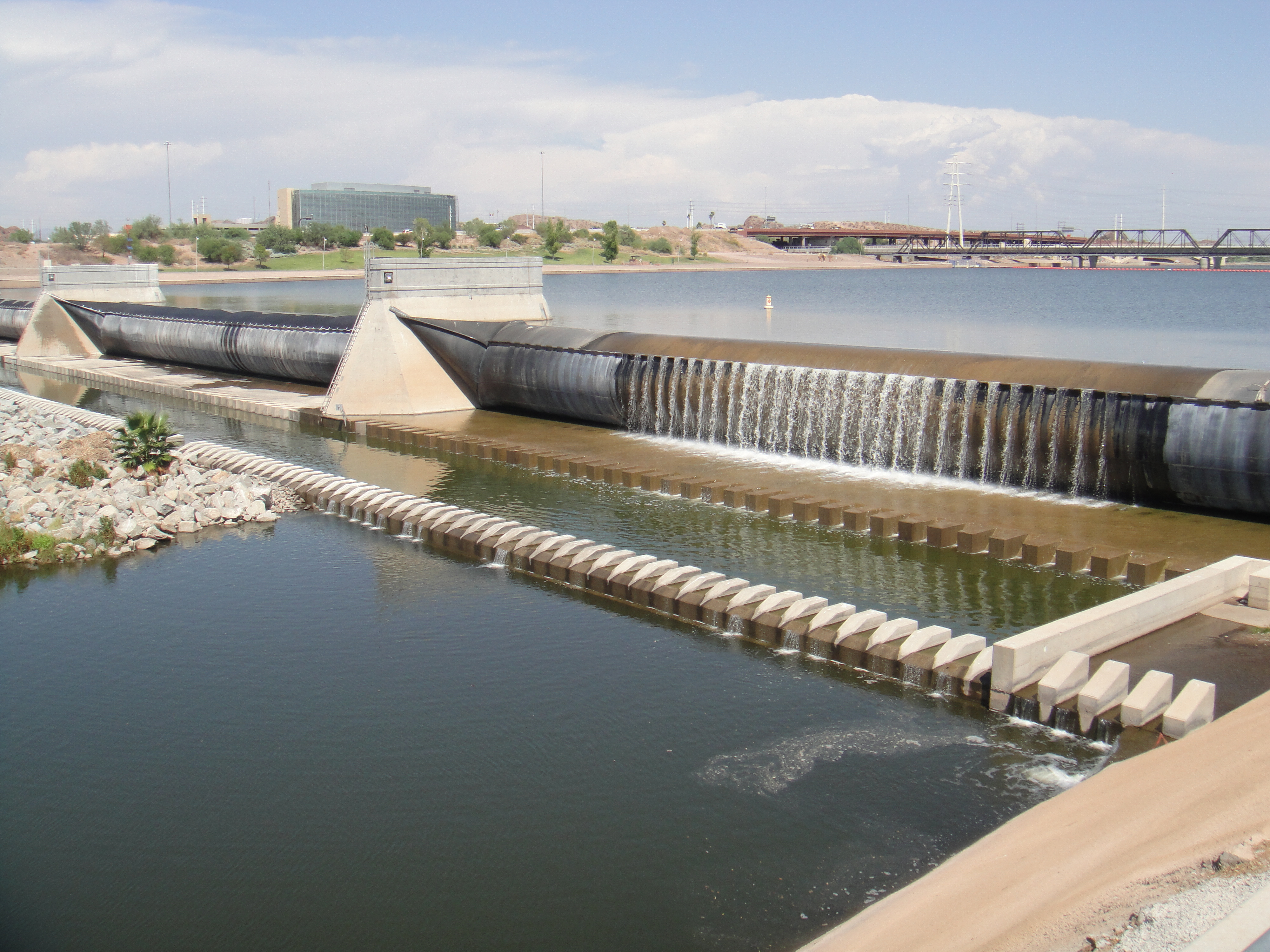 View of the West Dams holding back the Tempe Town Lake in Tempe, Arizona